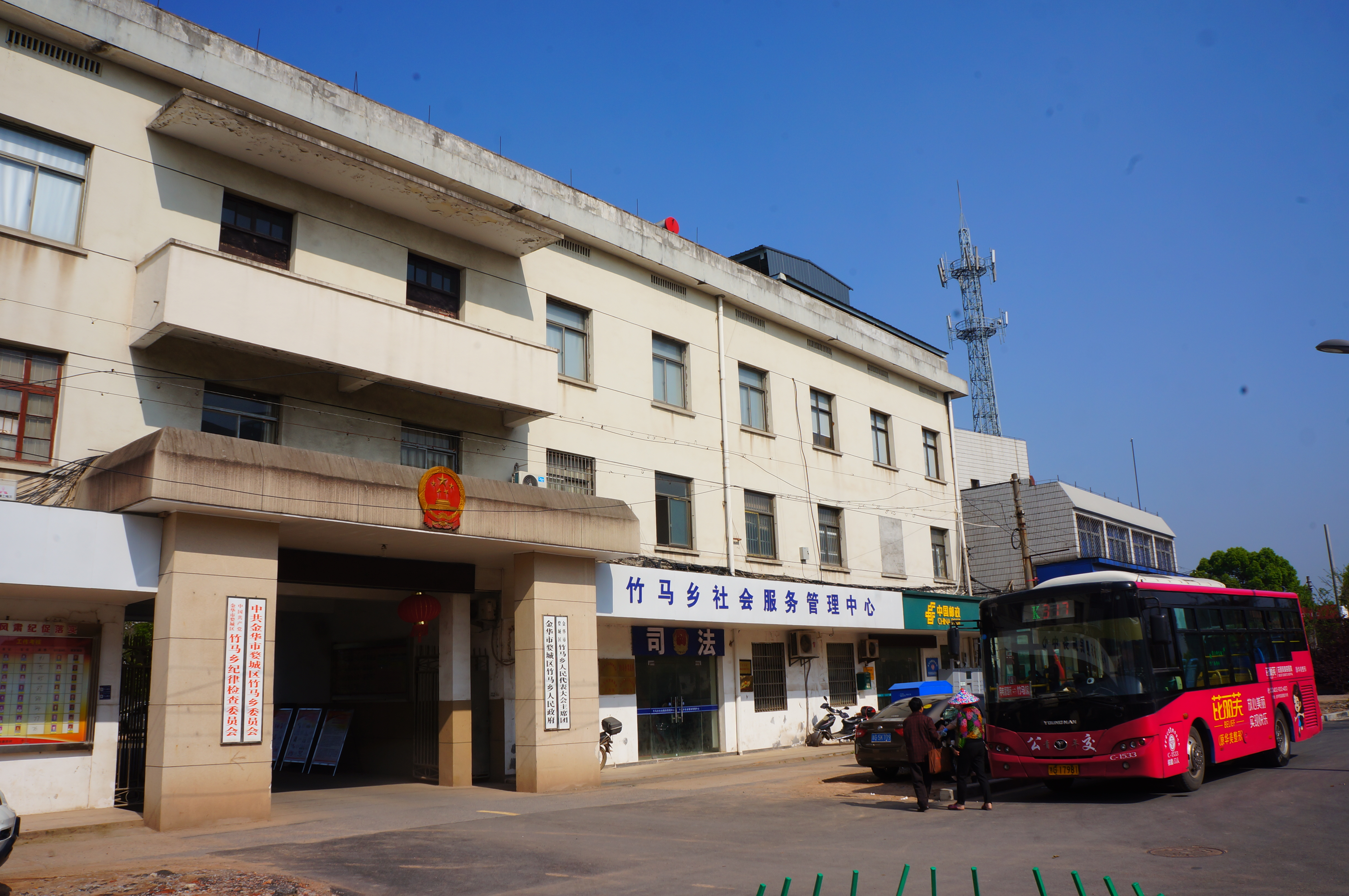 201704 Zhuma Townership Government